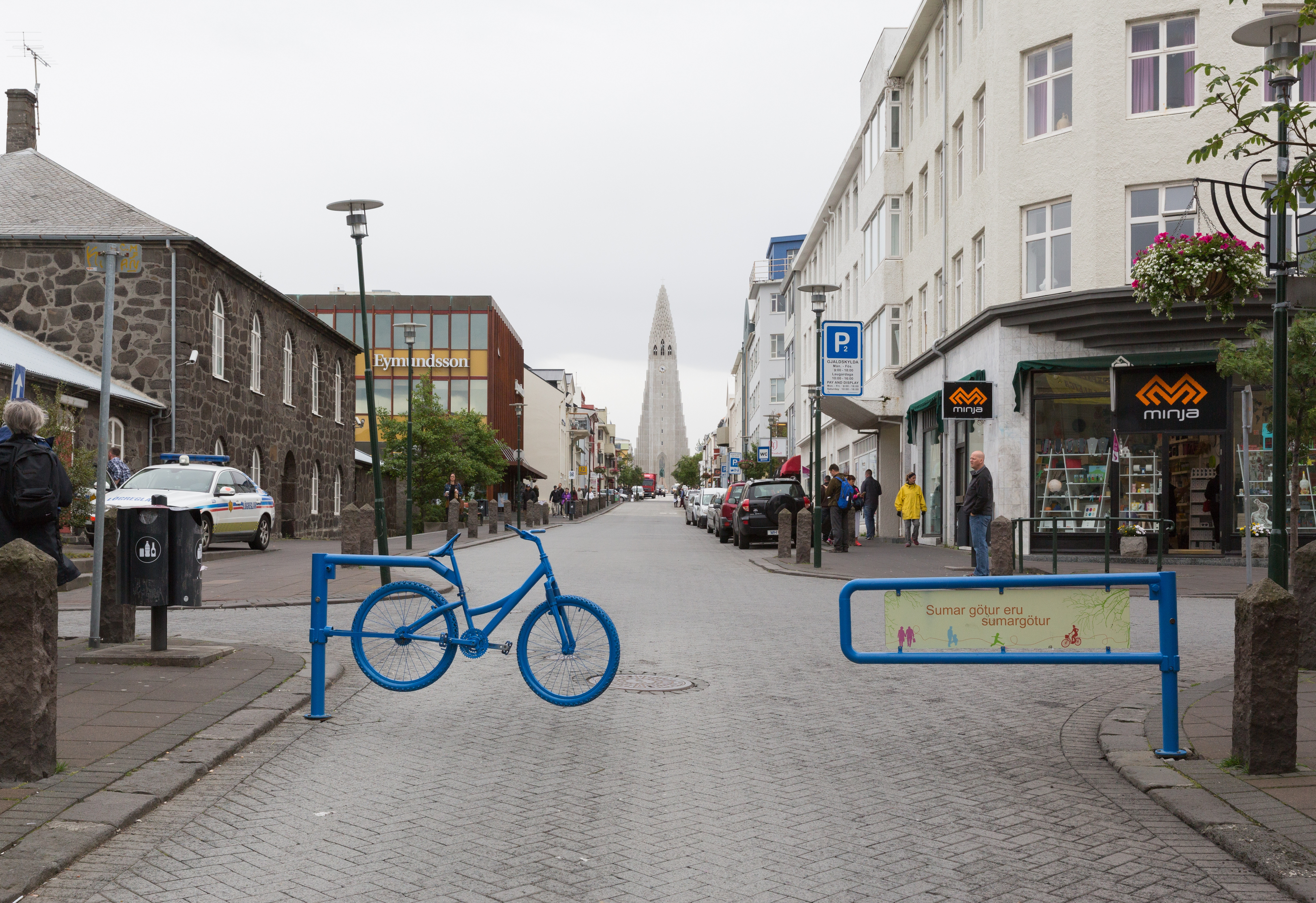 Skólavörðustígur and blue bike and Hallgrimskirkja in the background